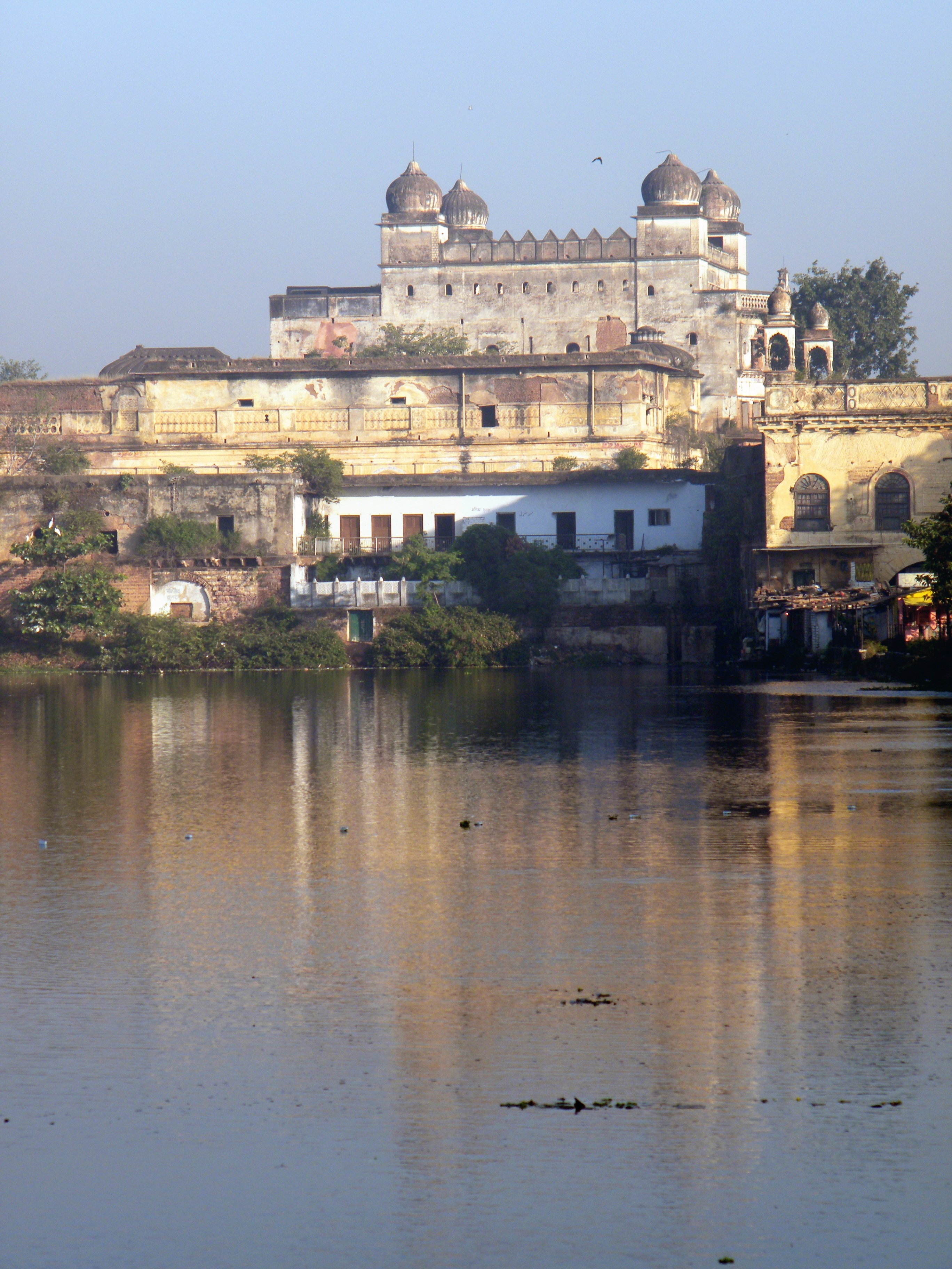 Taj Mahal, Bhopal, Madhya Pradesh, India